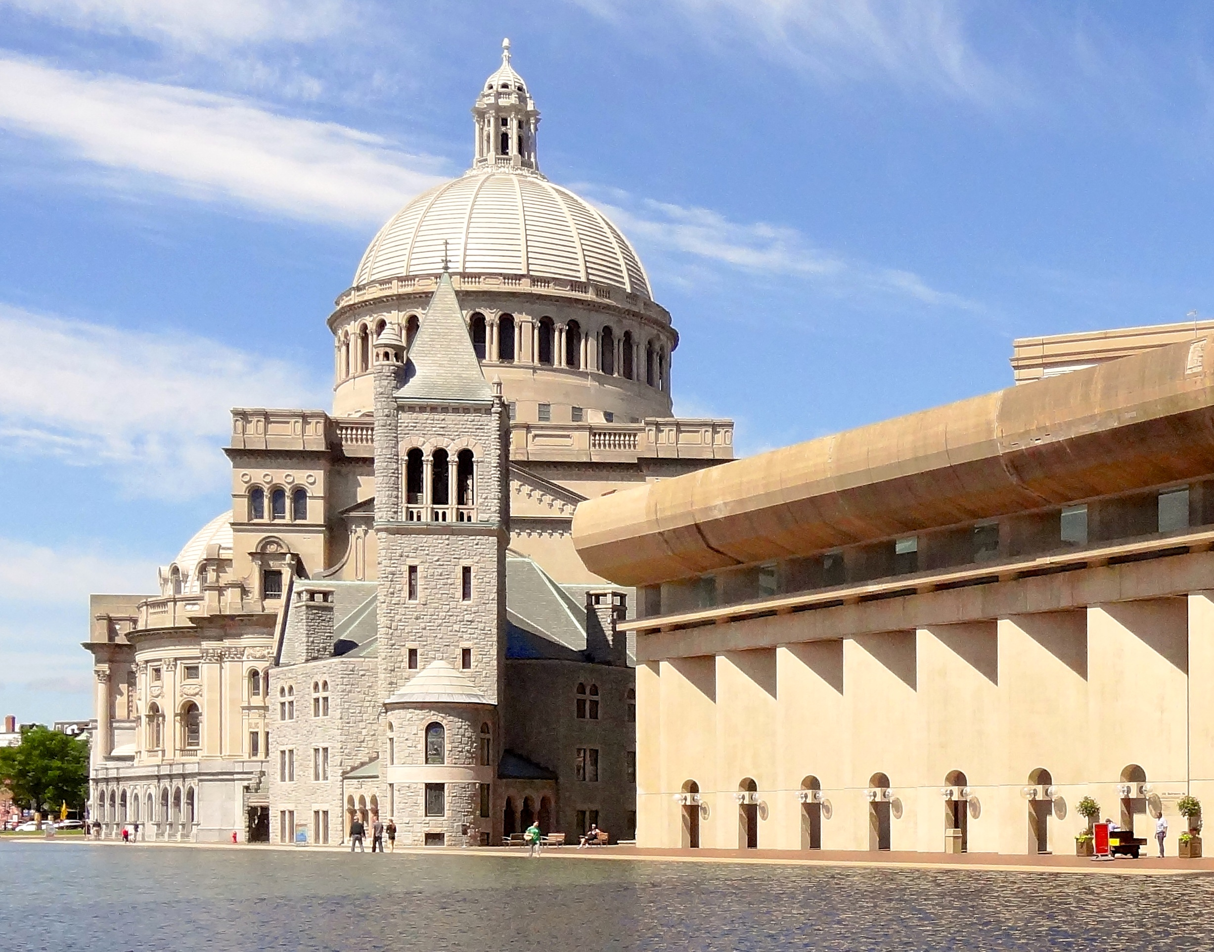 First Church of Christ Scientist, Boston, Massachusetts. The Mother Church is in the background. The Colonnade Building and Reflection Pool (1973) were designed by Araldo Cossutta.